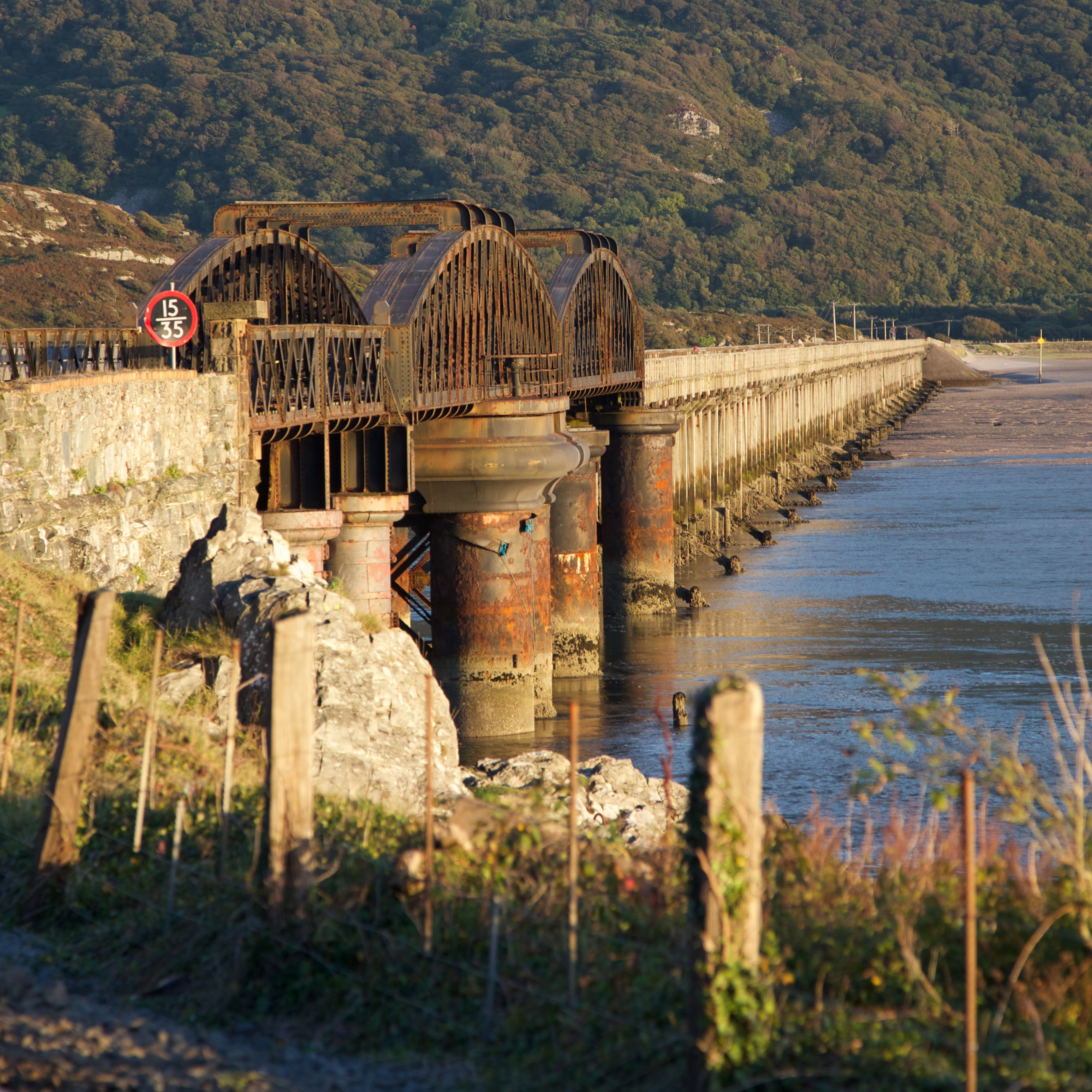 Barmouth Railway Bridge,(partly In Arthog Community) Barmouth Bridge Wikidata has entry Q17743839 with data related to this item.